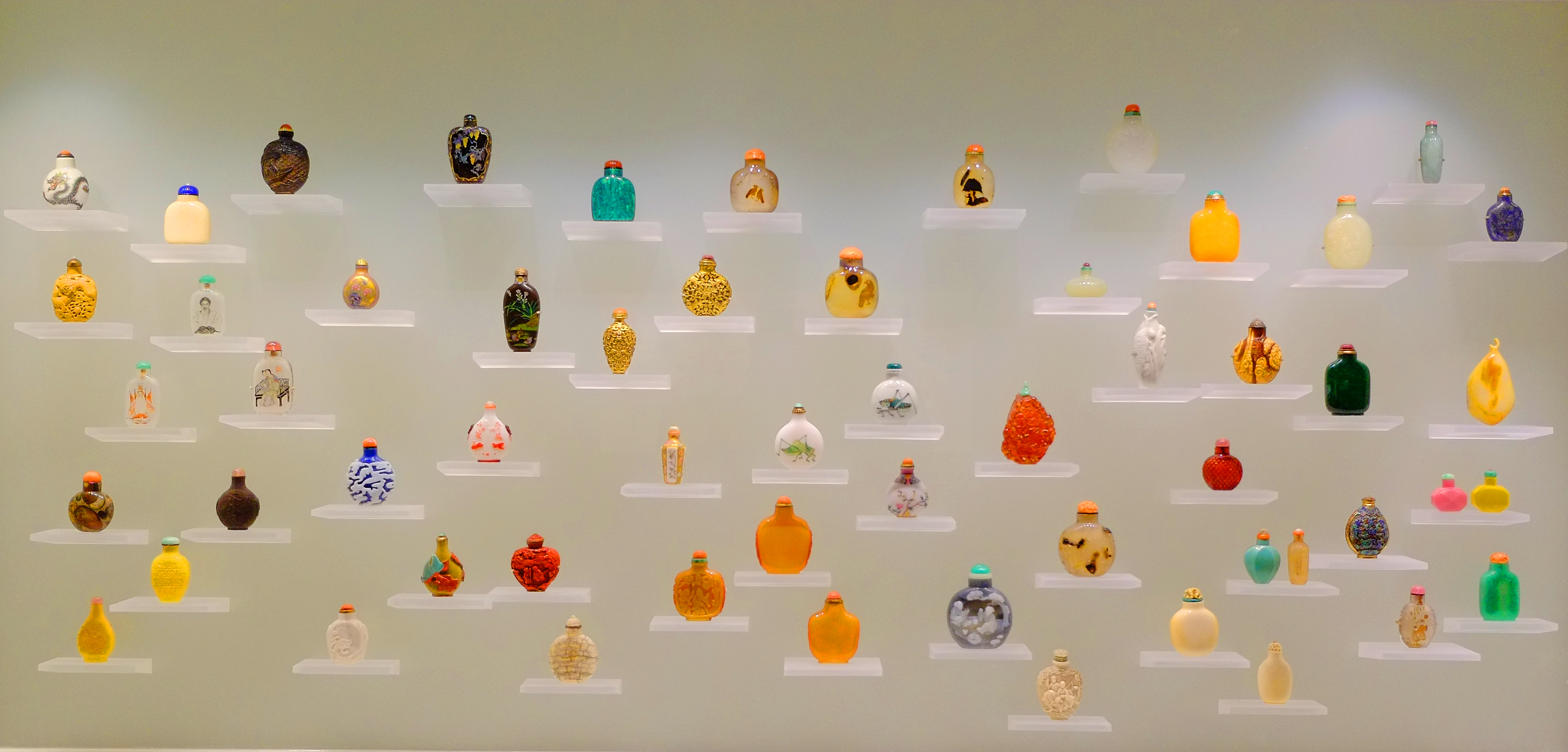 Art Gallery of Ontario